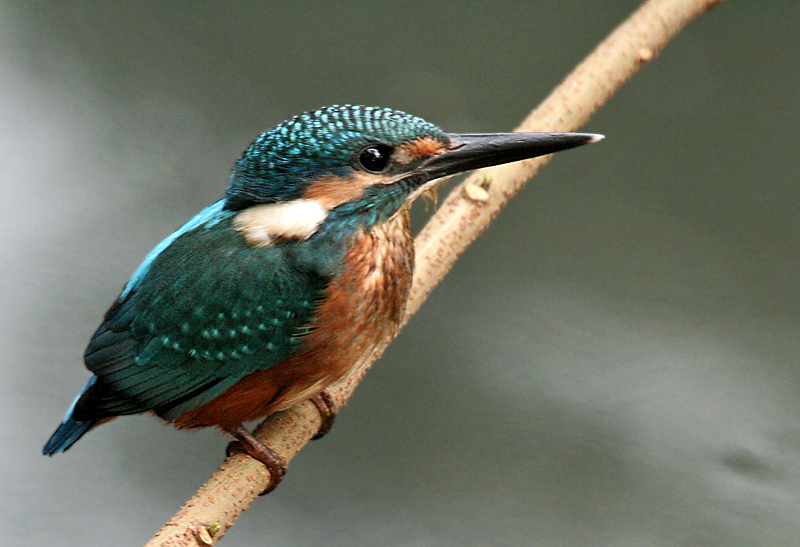 Common Kingfisher Alcedo atthis in Kolkata, West Bengal, India.